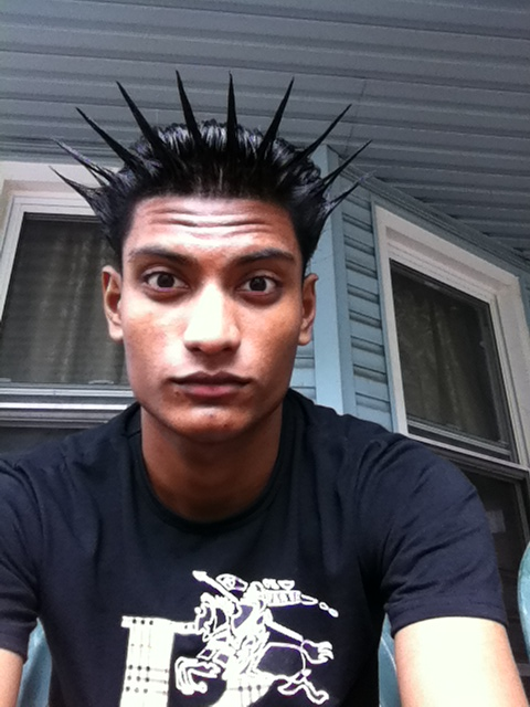 this is a photo of a guy with liberty spikes